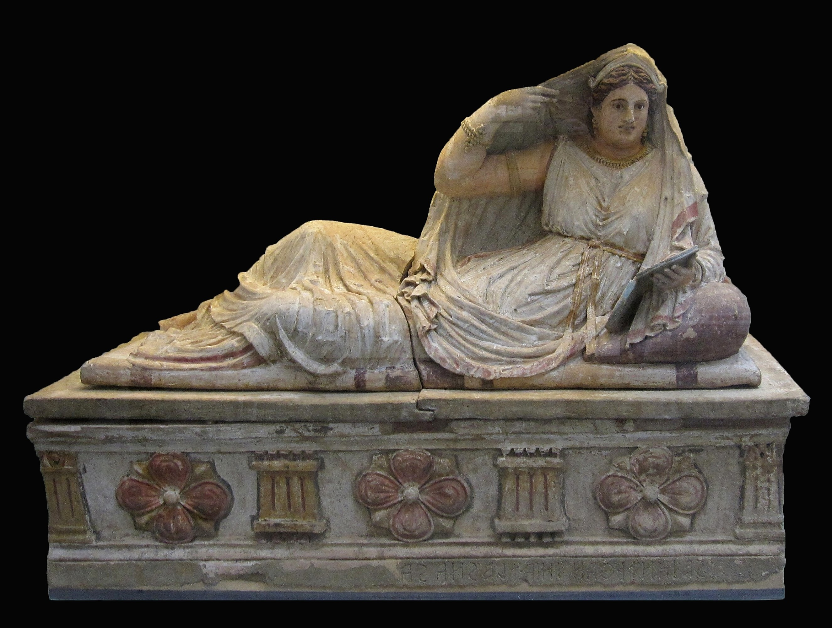 The dead woman, her name inscribed on the base of her chest, was clearly a well-to-do lady. She reclines upon a mattress and pillow, holding an open-lidded mirror in her left hand and raising her right hand to adjust her mantle. She wears a tunic (chiton) with high girdle and a bordered cloa, and her jewellery comprises a tiara, earrings, necklace, bracelets and finger-rings. The skeleton from the sarcophagus was found to belong to a woman who was about fifty years old at the time of her death.